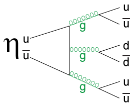 Feynman diagram of the decay of an eta particle by gluon emission.